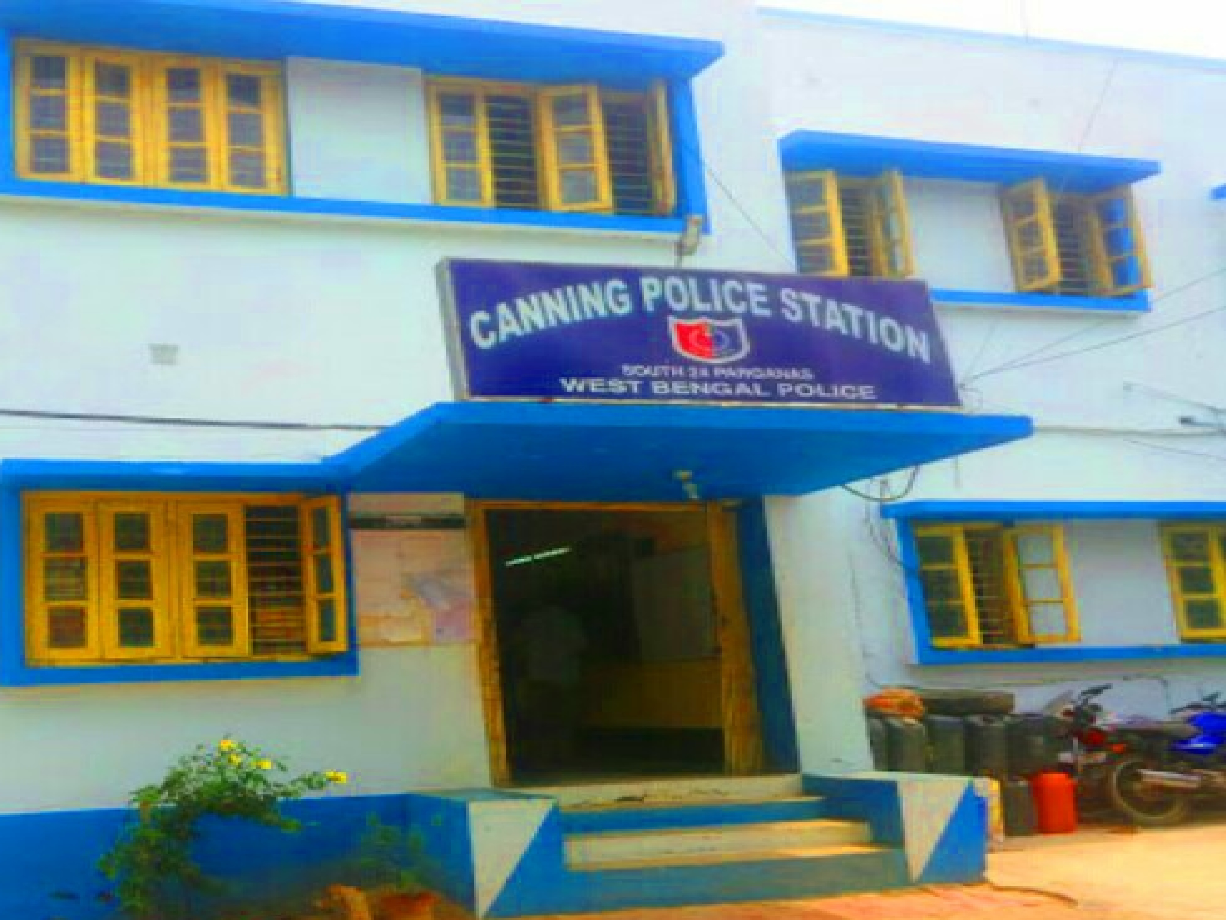 Building of the Canning Police Station